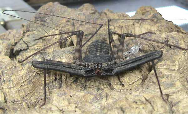 Tailless whip scorpion (Damon diadema).